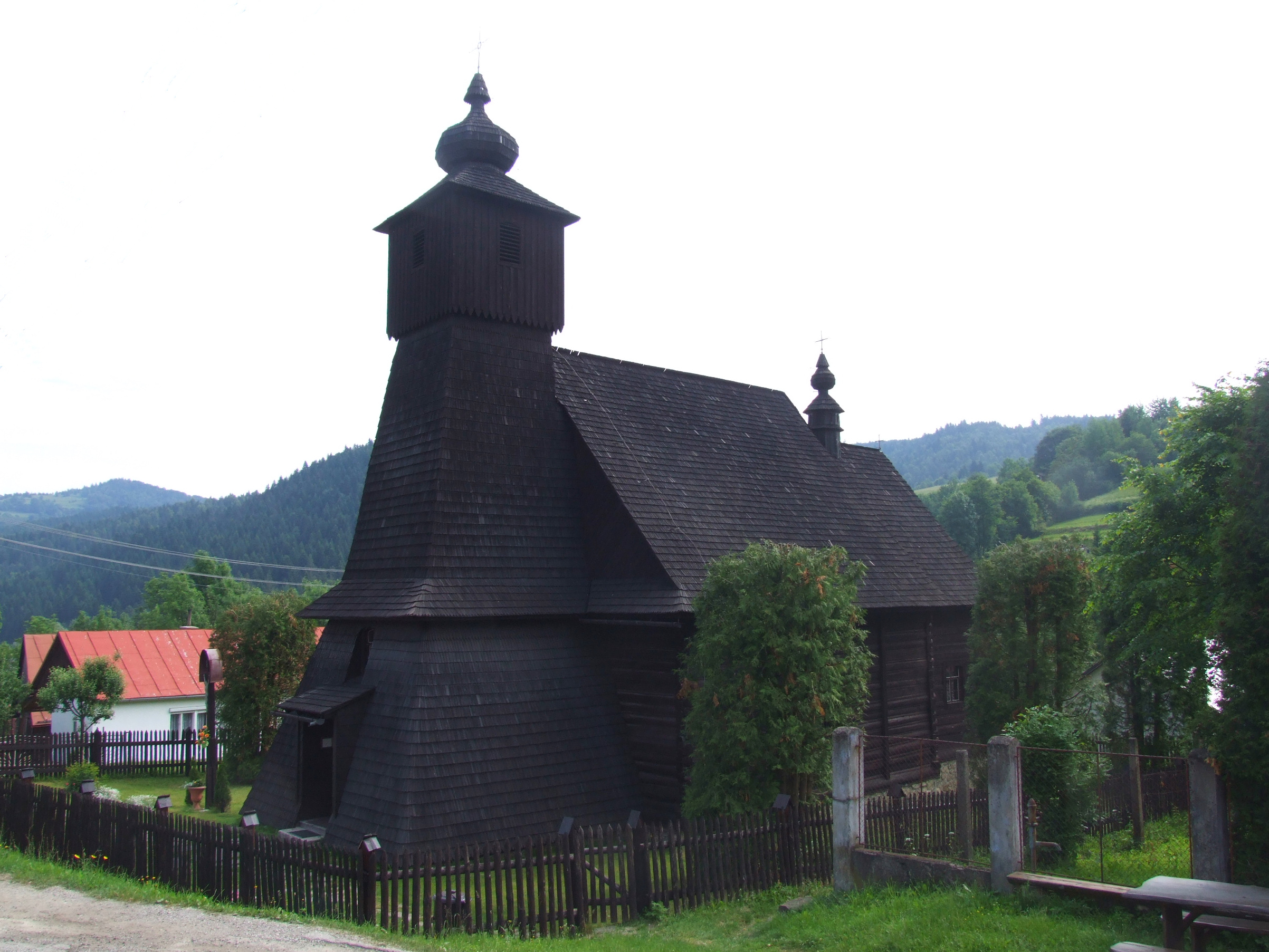 wooden church in Hraničné near Stará Ľubovňa, Slovakia